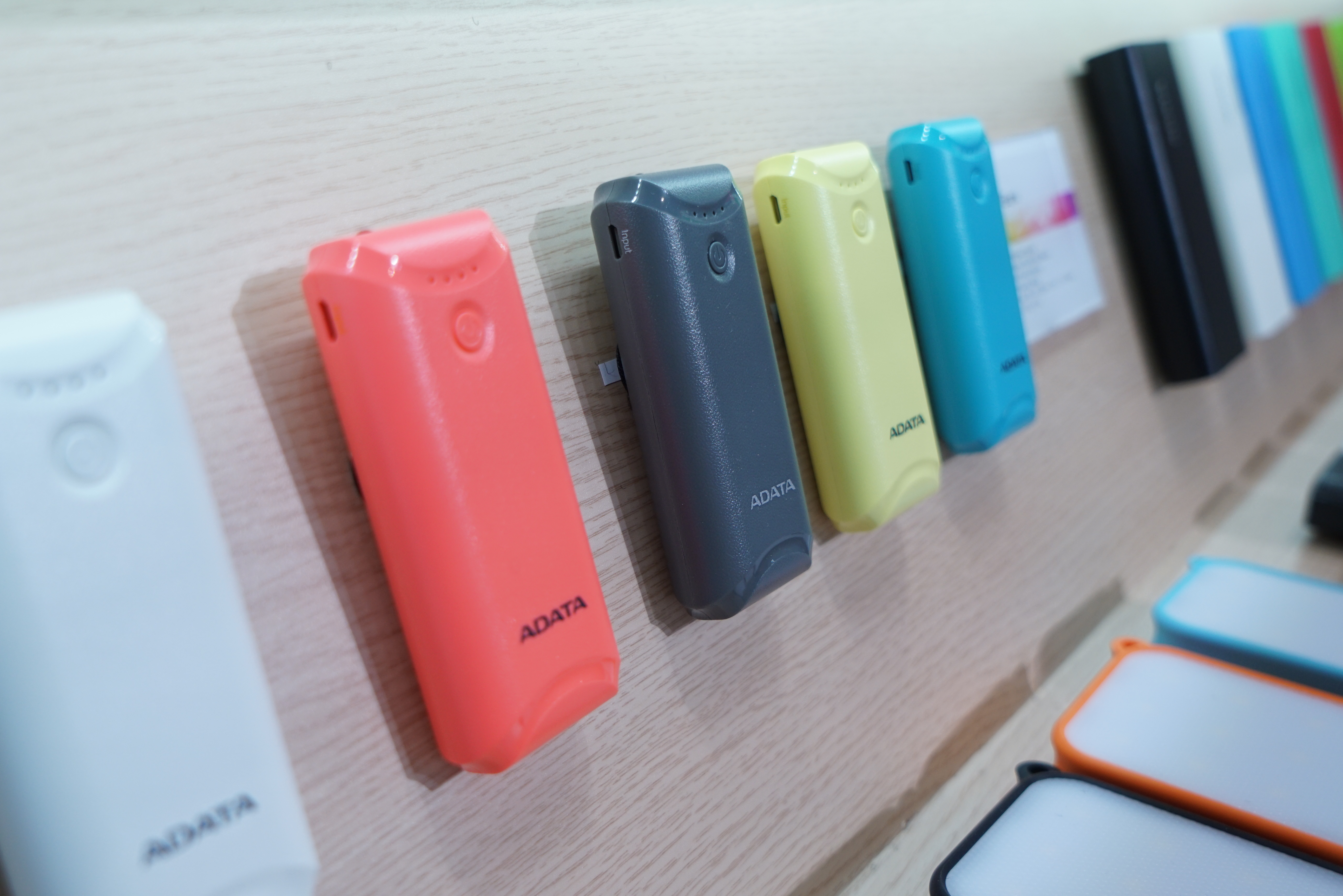 ADATA Power Banks at Computex Taipei 2018